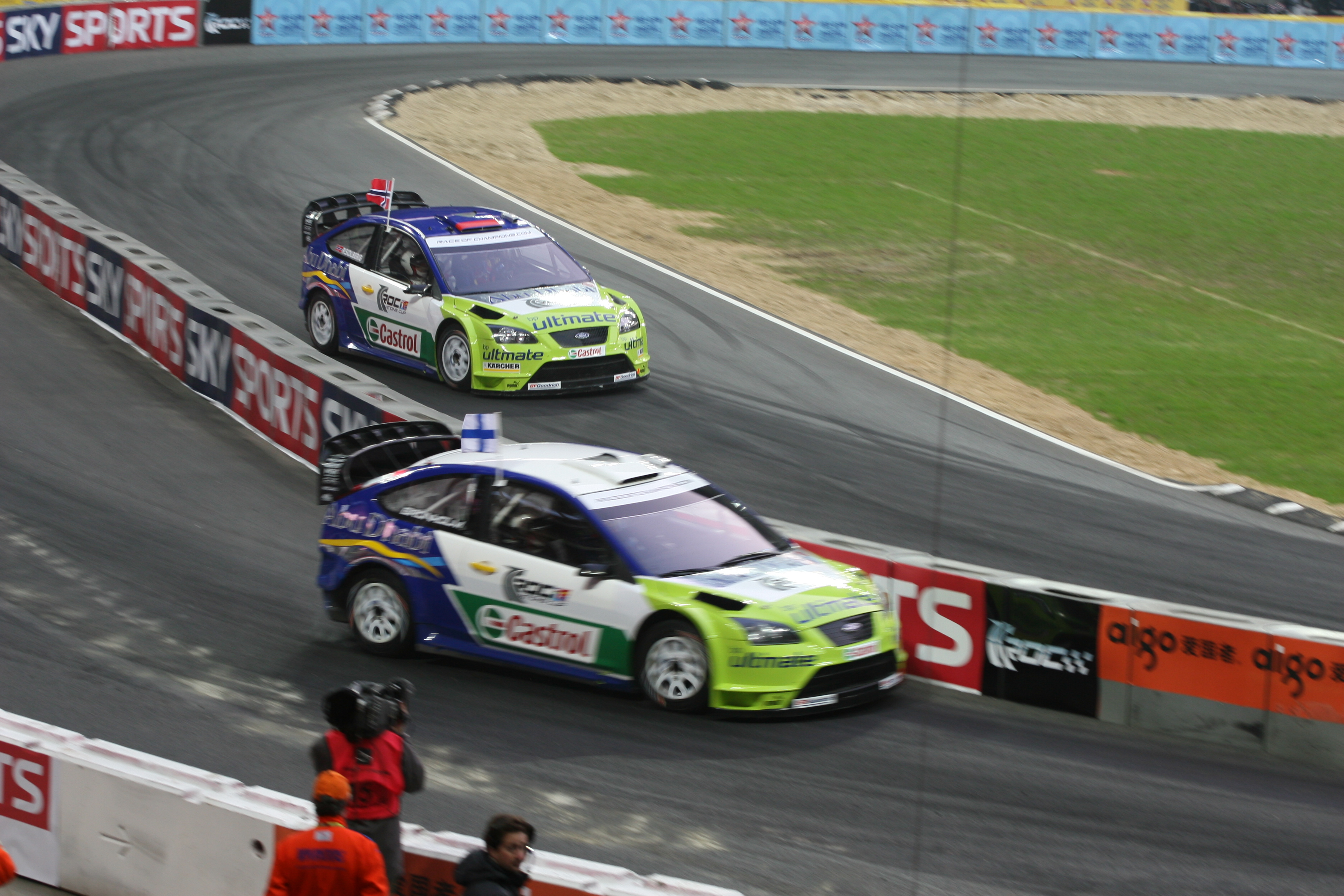 Marcus Grönholm and Petter Solberg driving Ford Focus RS WRC 07 rally cars at the 2007 Race of Champions at Wembley Stadium.